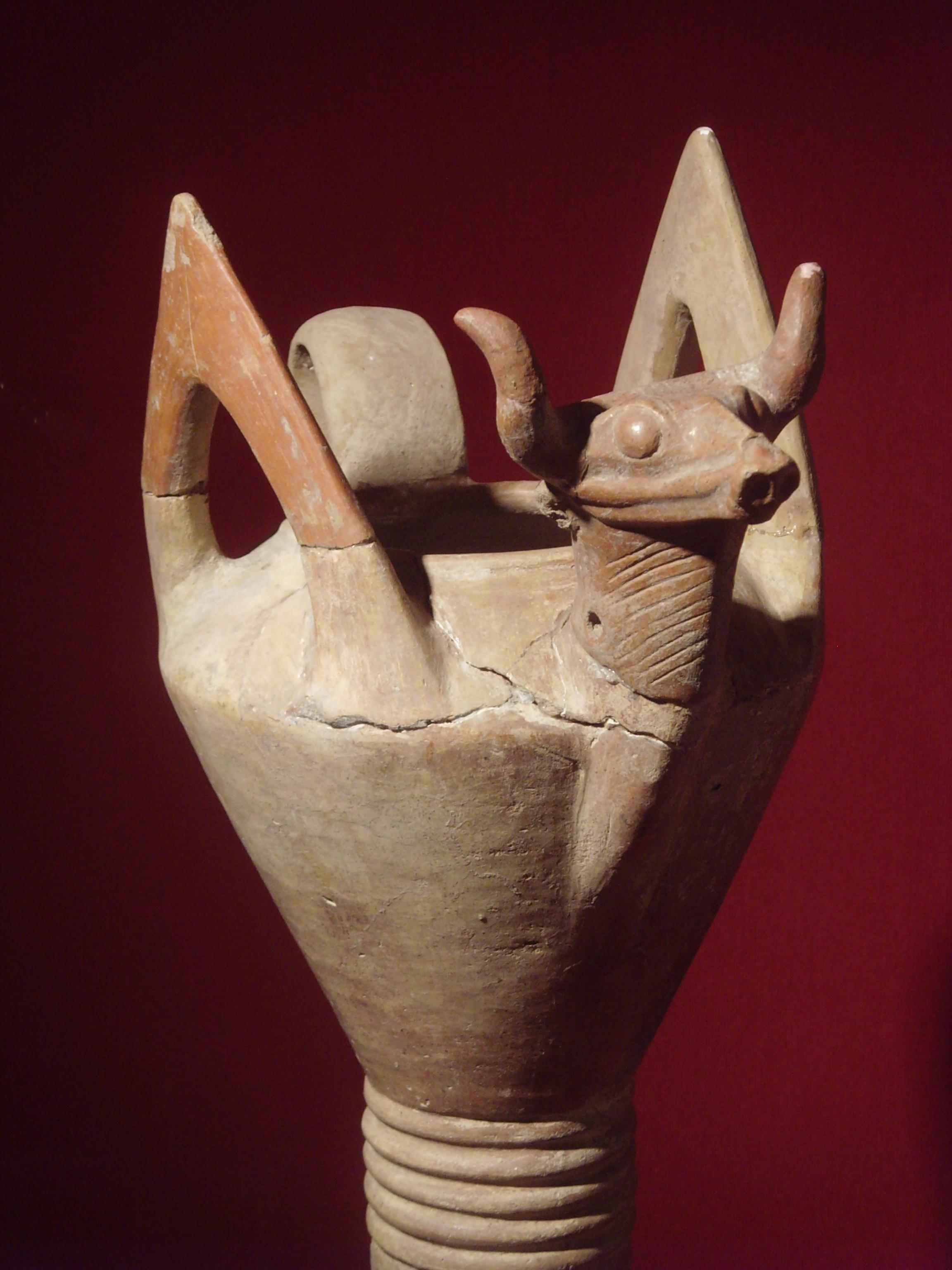 Detail from Hittite fruit cup - Baked clay - Kültepe (Kaneš) - Hittite period (first quarter of 2nd millennium B.C.) - From the collection of The Museum of Anatolian Civilizations - photographed at The Turkish and Islamic Arts during a temporary exhibition